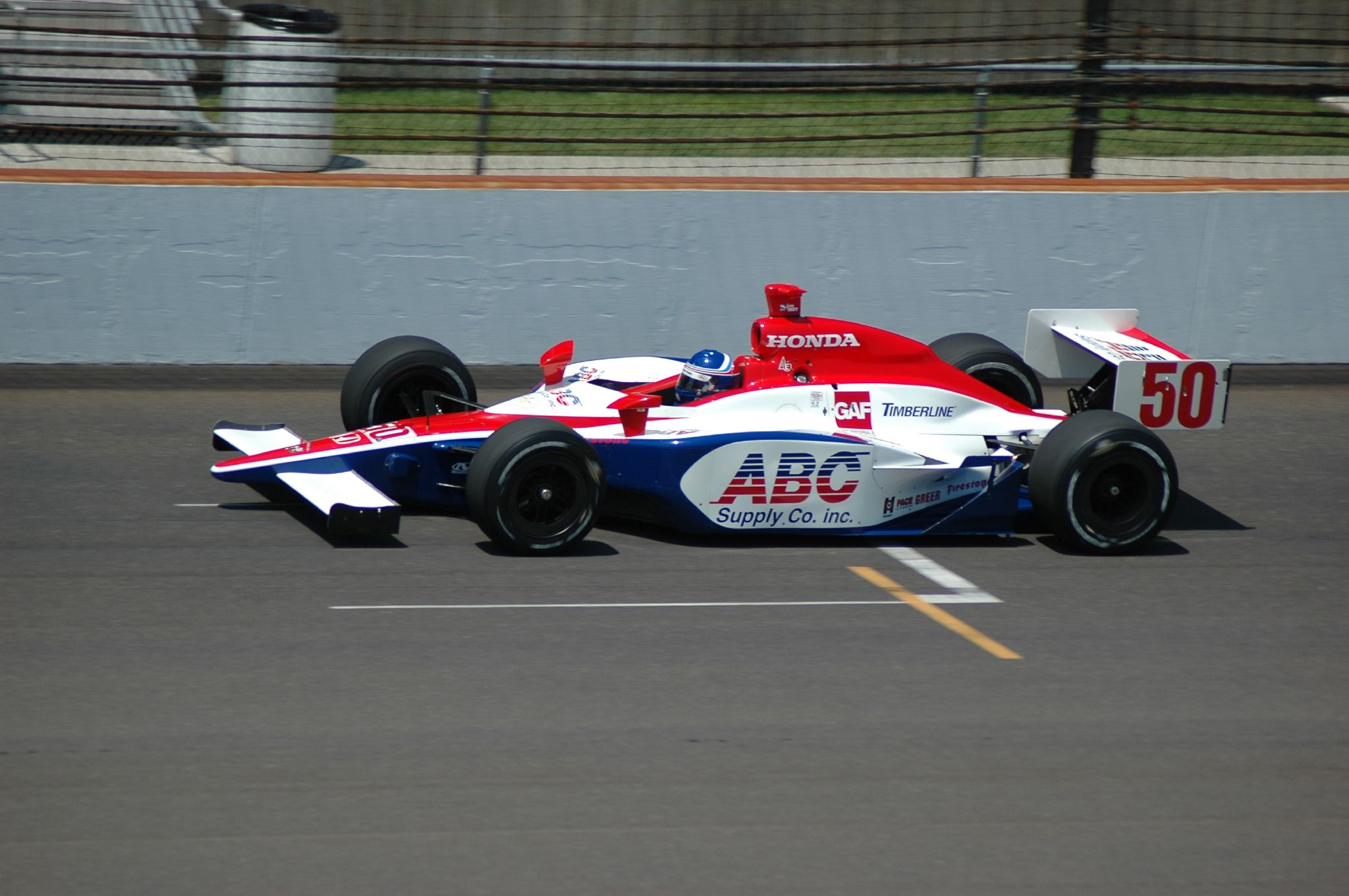 Al Unser, Jr. practicing for the en:2007 Indianapolis 500DSC_0080